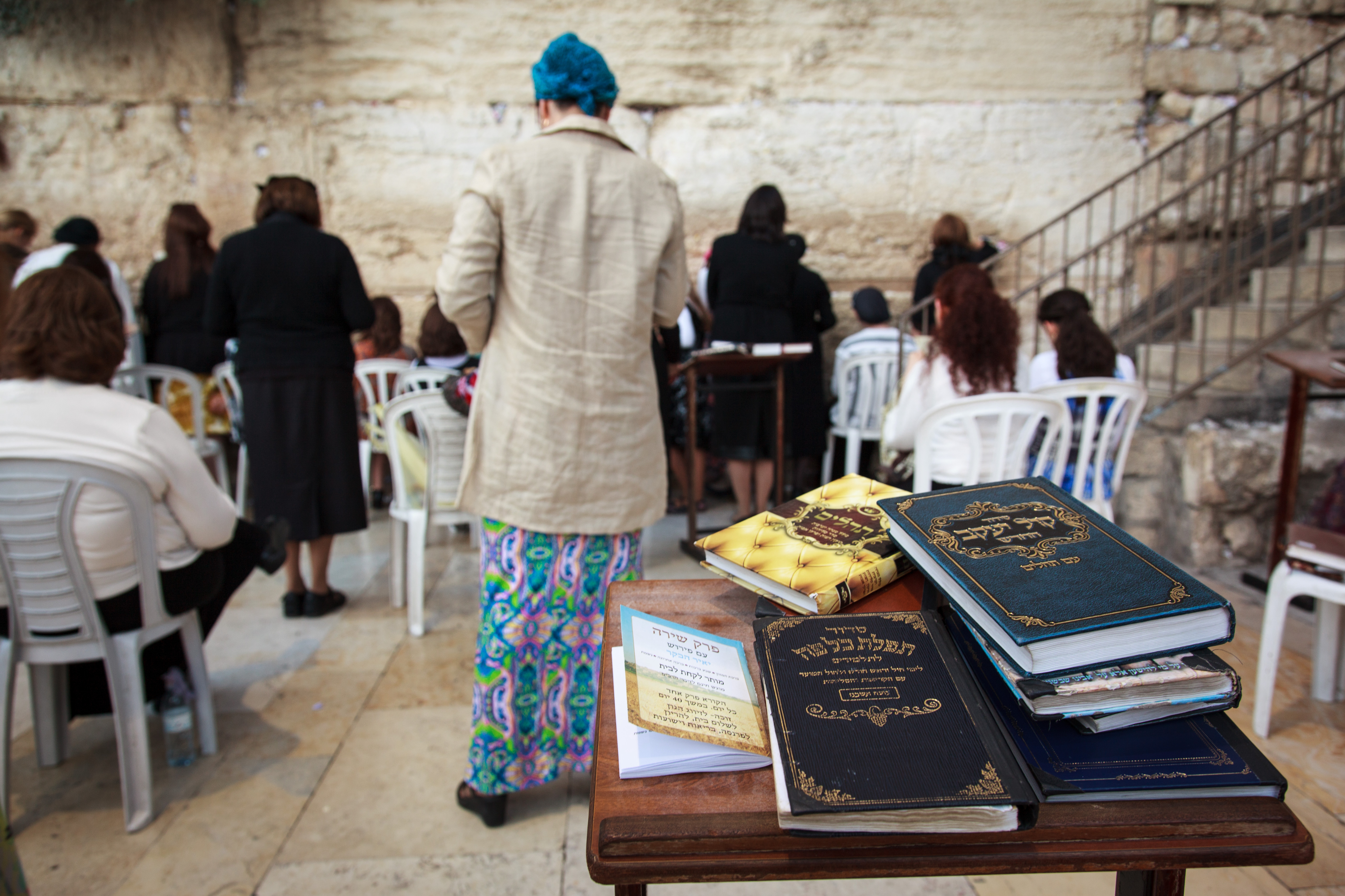 Jewish women praying at the Western Wall.